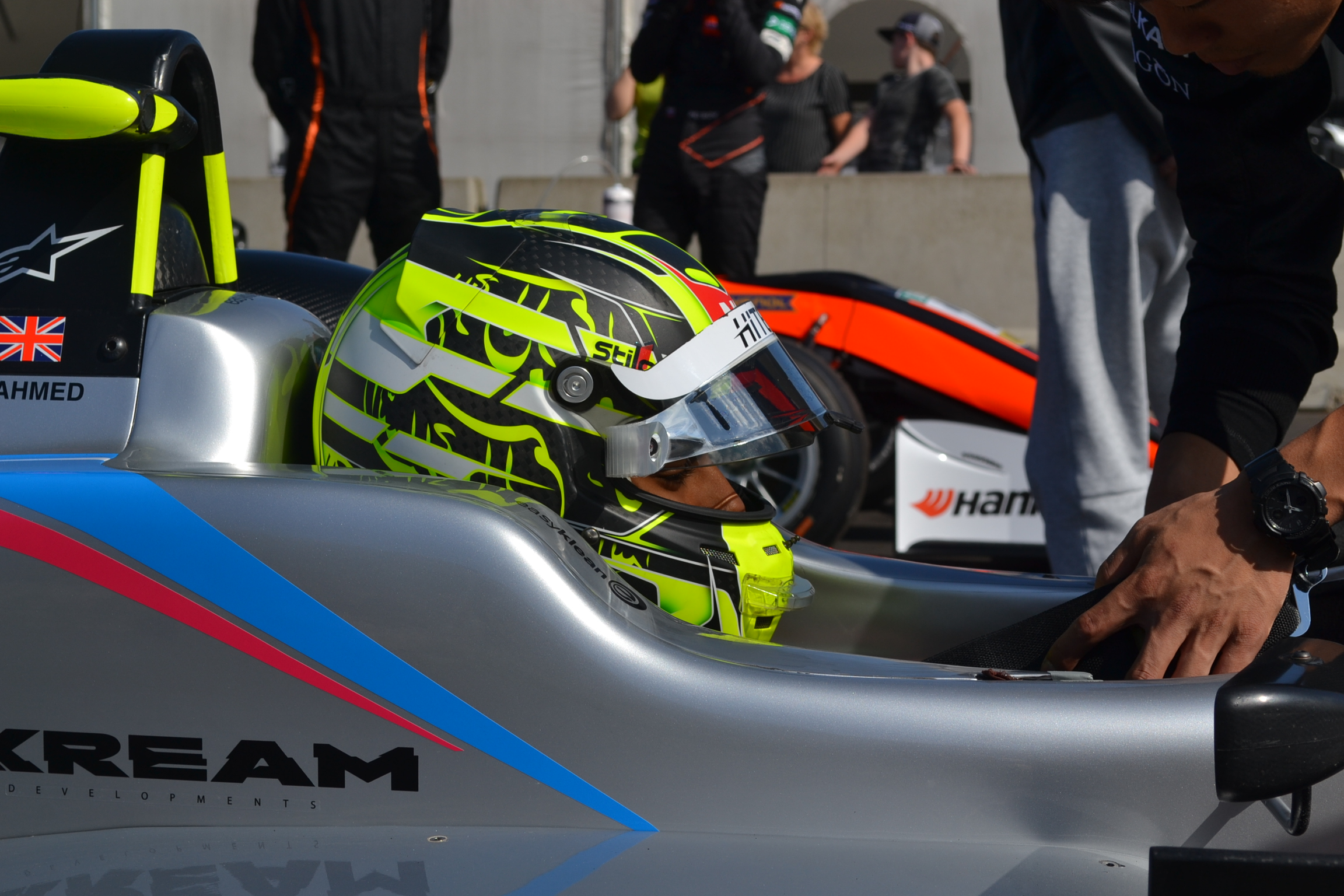 Enaam Ahmed during the 2018 FIA Formula 3 European Championship